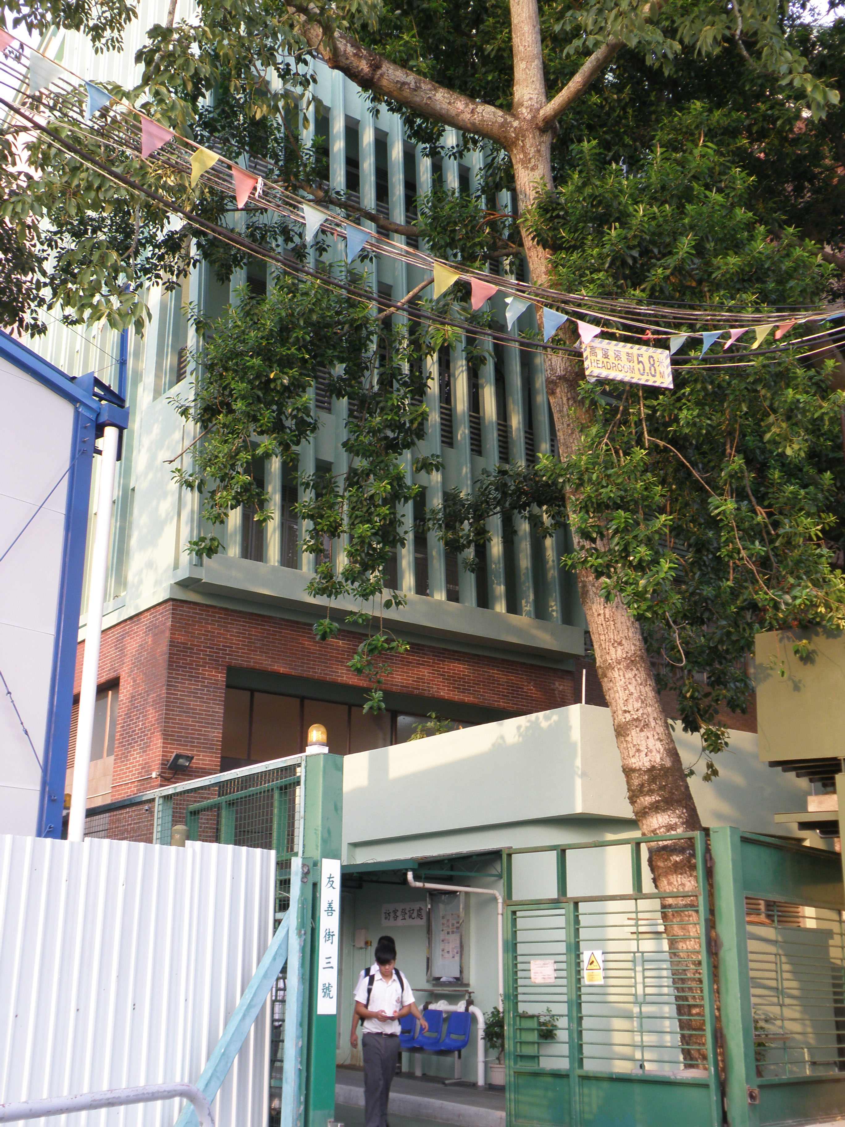 Entrance and exit of TWGHs C.Y.Ma Memorial College, Yuen Long, Hong Kong.